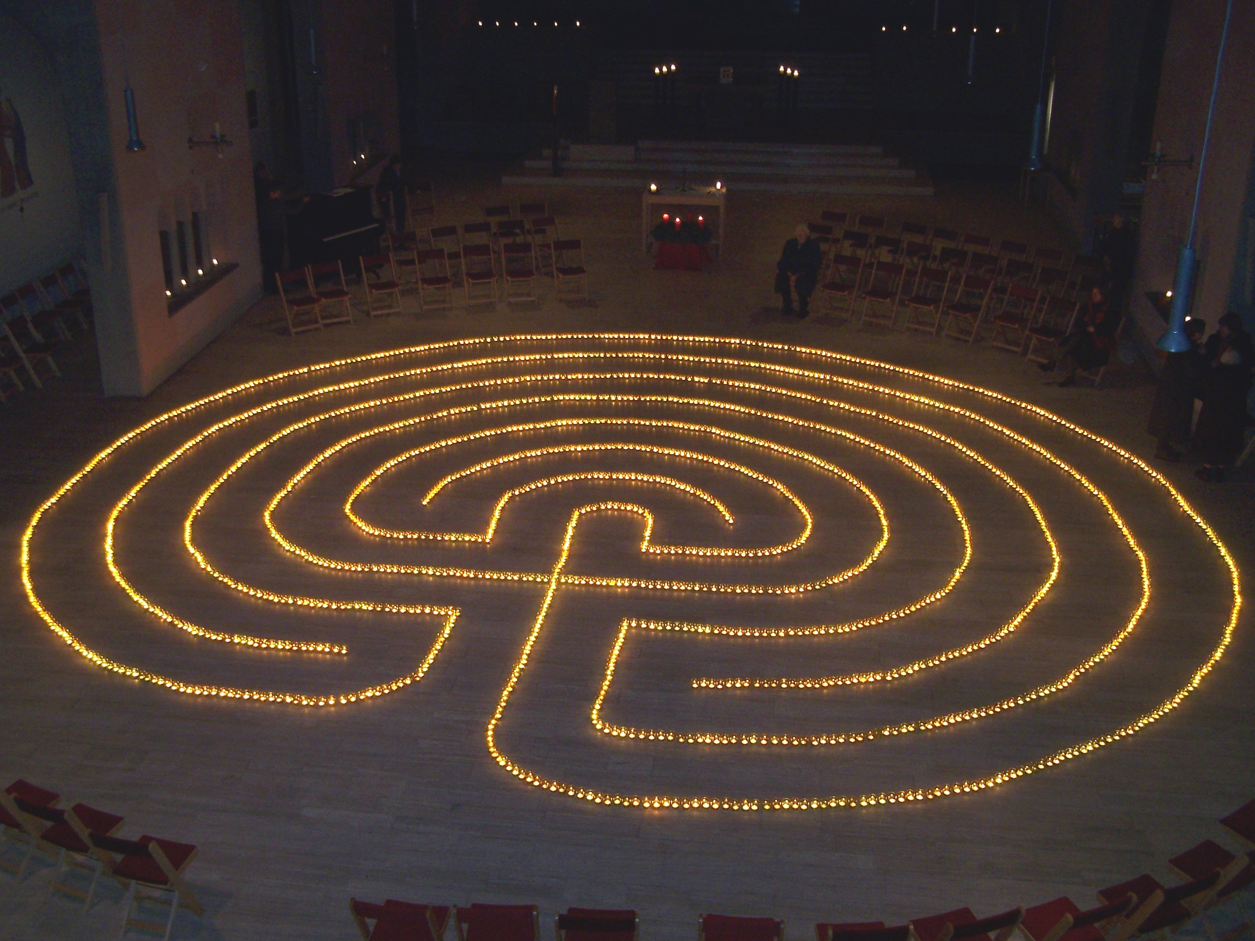 Labyrinth made with 2500 burning tealights in the Holy Cross Church of the Centre for Christian Meditation and Spirituality of the Diocese of Limburg in Frankfurt am Main-Bornheim